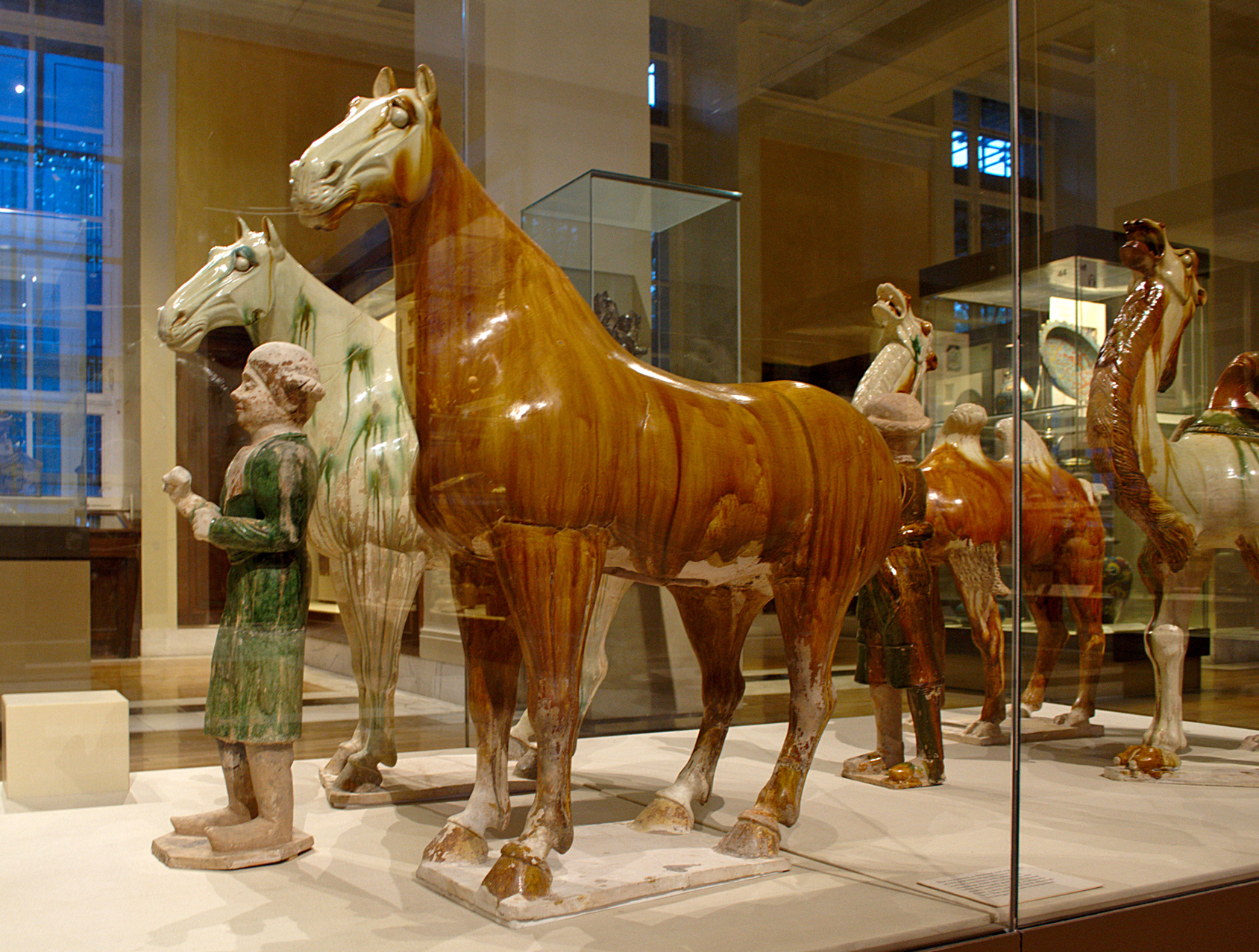 Models from a tomb of the Tang dynasty in British Museum